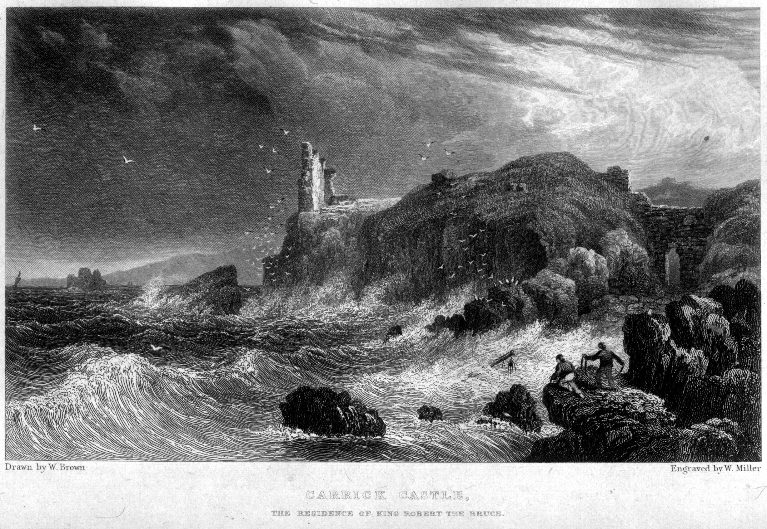 Carrick Castle, engraving by William Miller after W Brown, published in Select Views Of The Royal Palaces Of Scotland, From Drawings by William Brown, Glasgow; With Illustrative Descriptions Of Their Local Situation, Present Appearance, And Antiquities. John Jamieson. Cadell & Co & Simpkin Marshall, Edinburgh & London 1830